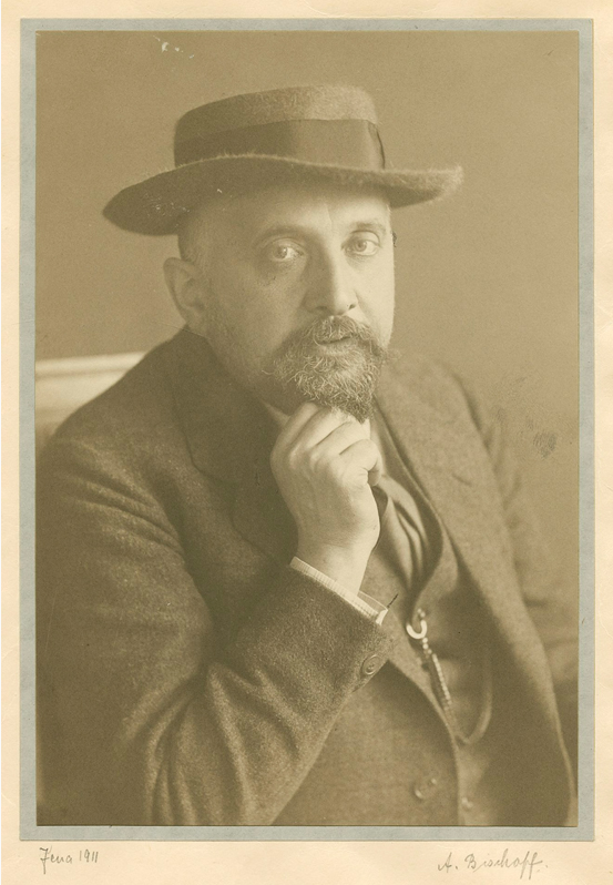 German publisher Eugen Diederichs in 1911. Foto Alfred Bischoff, Jena